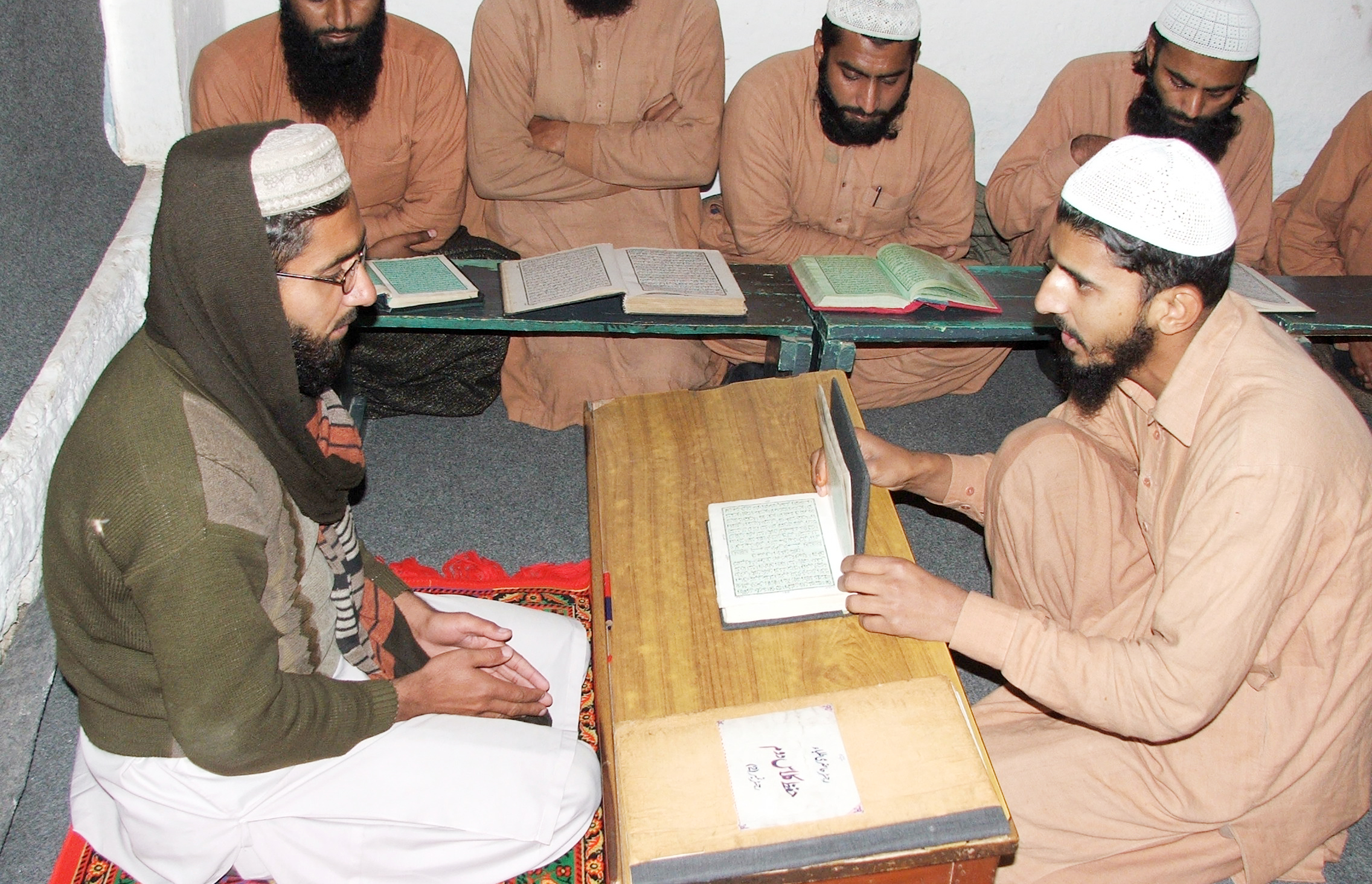 Convicted prisoners receiving Quranic education in Central Jail Faisalabad, Pakistan in 2010